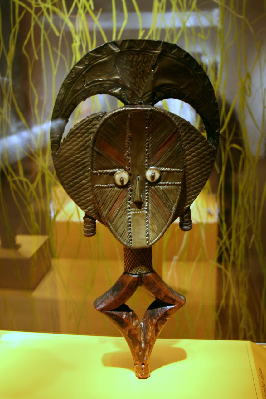 Reliquary guardian figure, Kota peoples, Gabon, Late 19th to early 20th century, Wood, brass, copper, bone, iron A masterwork of abstract, geometric shapes, this stylized human form once guarded ancestral bones preserved in large baskets. While the transverse crest of the coiffure and the large concave face are striking, the most unique feature is the small face on the back. Perhaps the ritual efficacy of the figure was better with two pairs of eyes. Because metal was a precious material, the metal surface on this figure serves as both an offering of wealth and a tangible metaphor for diverting harm. (National Museum of African Art)